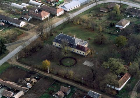 Patvarc, Hungary, aerialphotography